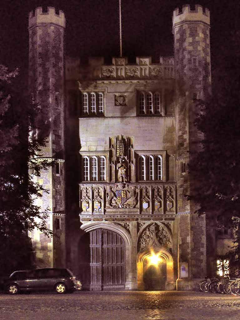 Trinity College, Cambridge, Great Gate (night)